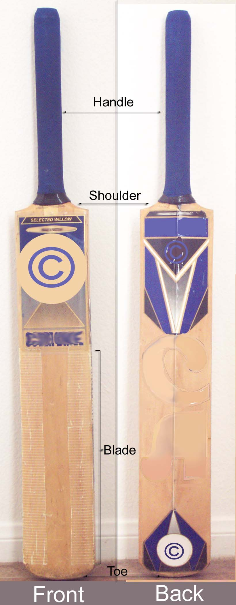 The front of the Cricket Bat (used to hit the ball) is pictured on the left. This is a flat surface. The rear of the Cricket Bat is on the right. It is considerably thicker in the center and thins out towards the sides.